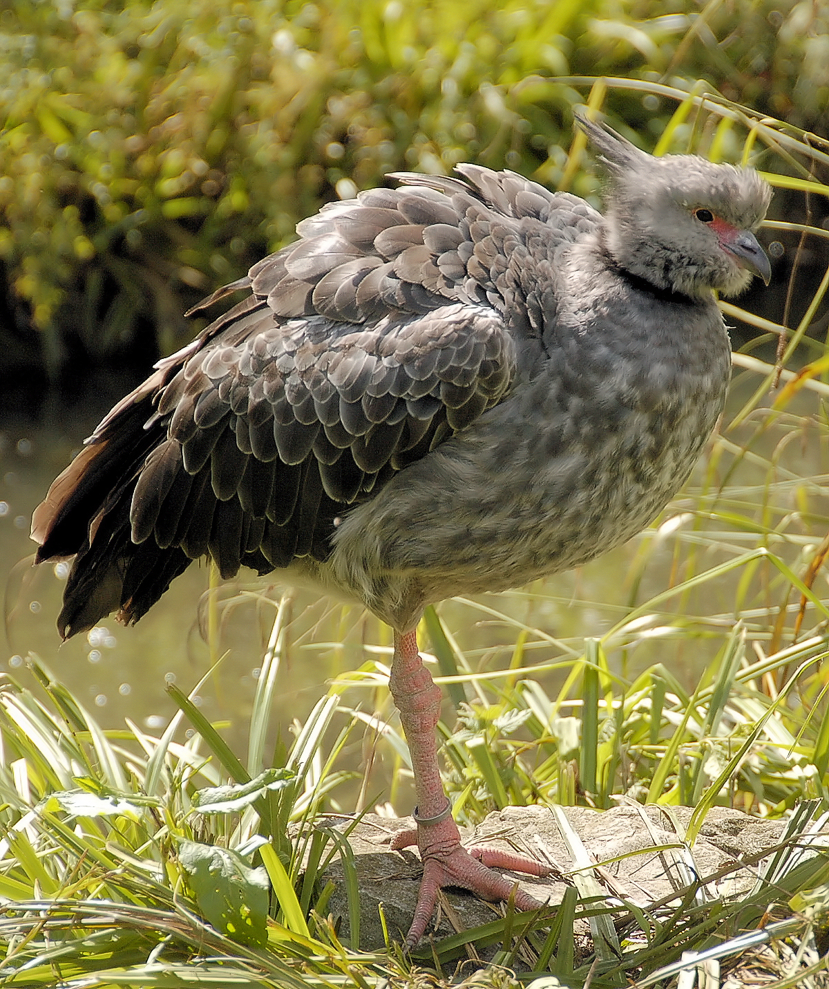 Crested Screamer Chauna torquata at the Wildfowl and Wetlands Trust, Slimbridge, Gloucestershire, England.